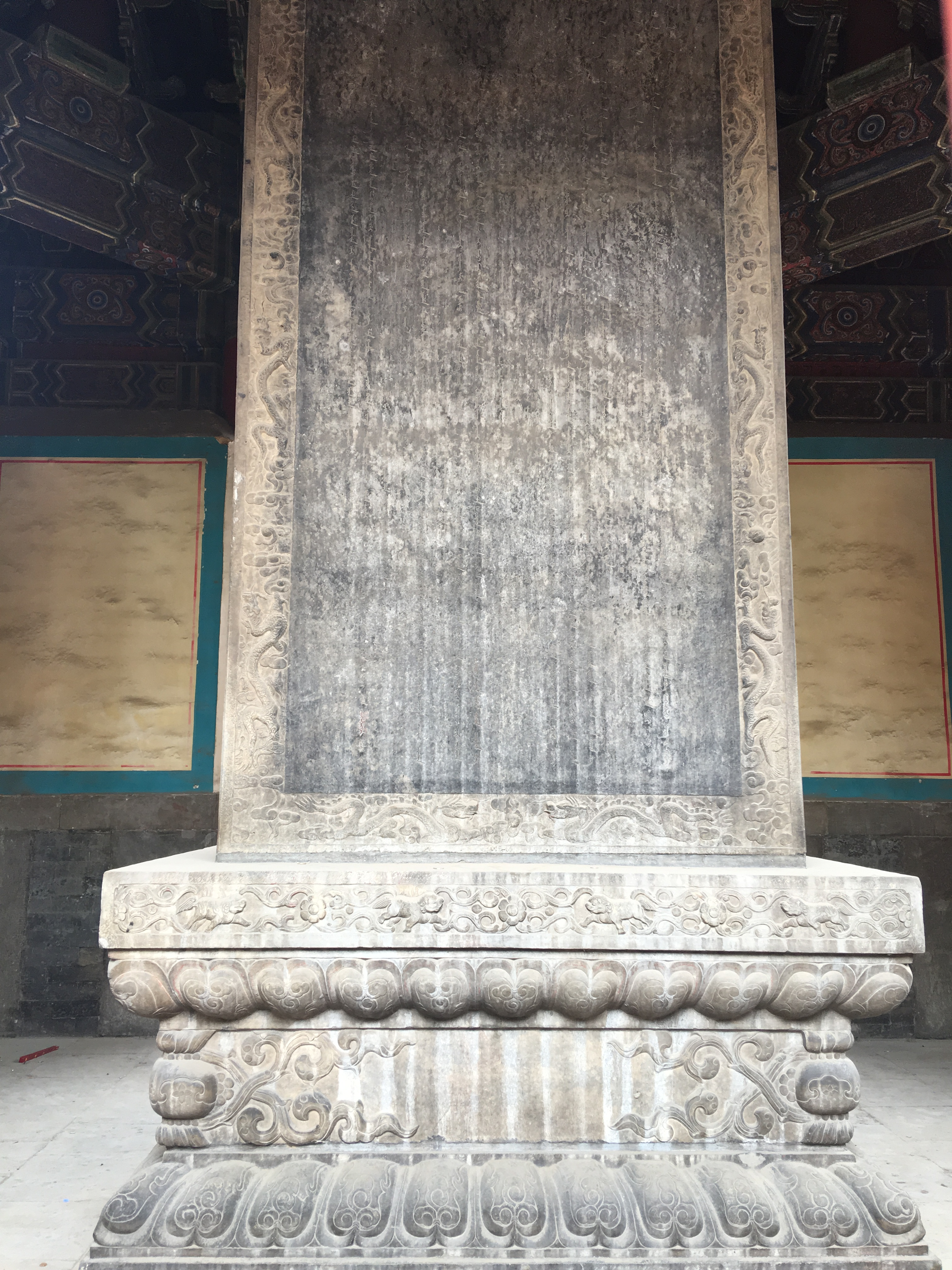 Yonghegong (Yonghe Temple), a Lama Temple in Dingcheng District - northeast-central Beijing, China. This stele is the Lama shuo a text of Kangxi emperor about bouddhisme he wrote in 1792. This is the manchu script part of the stele. It is engraved in 4 languages.